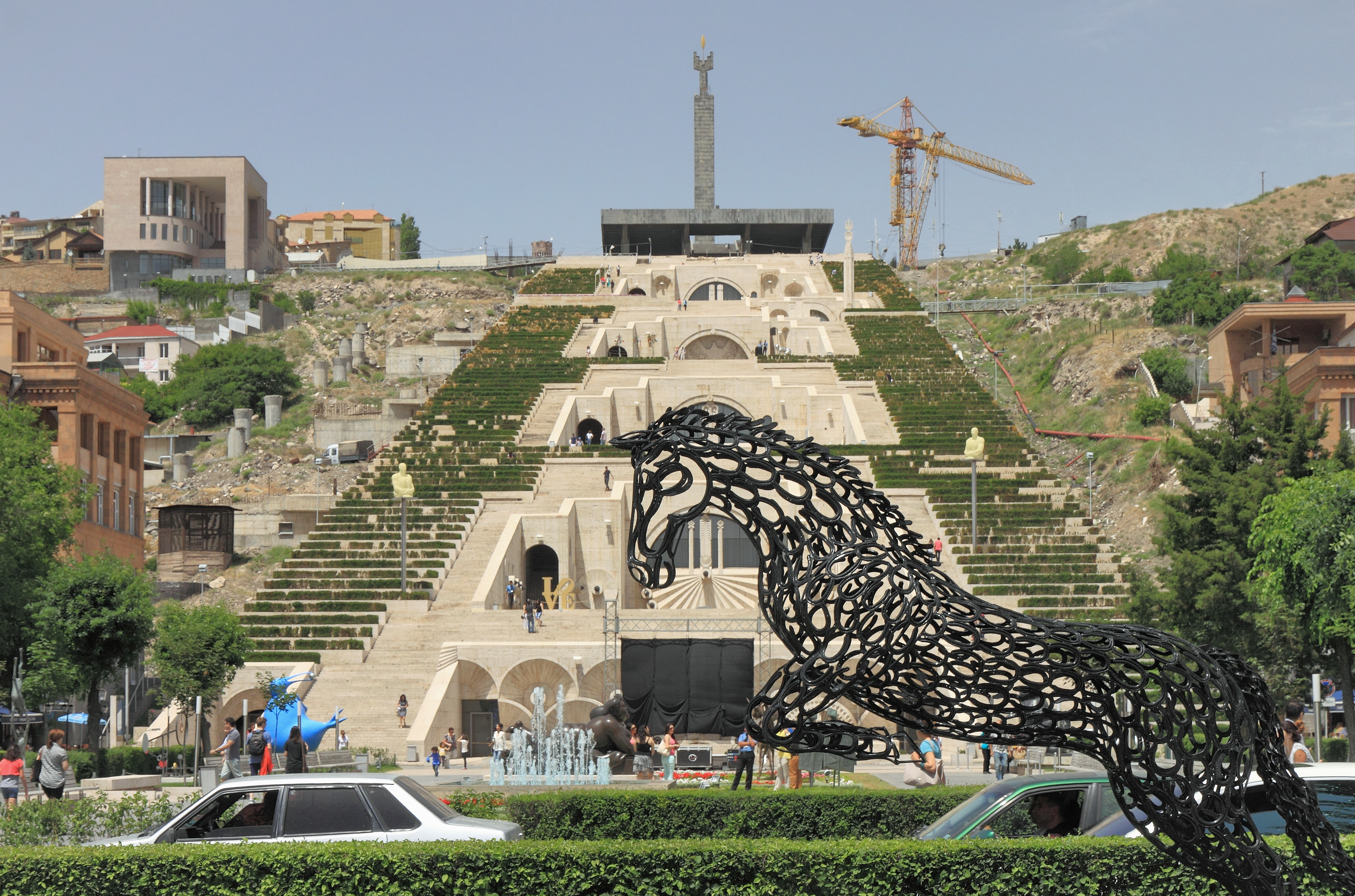 Park on the way to Cascade. Yerevan, Armenia.